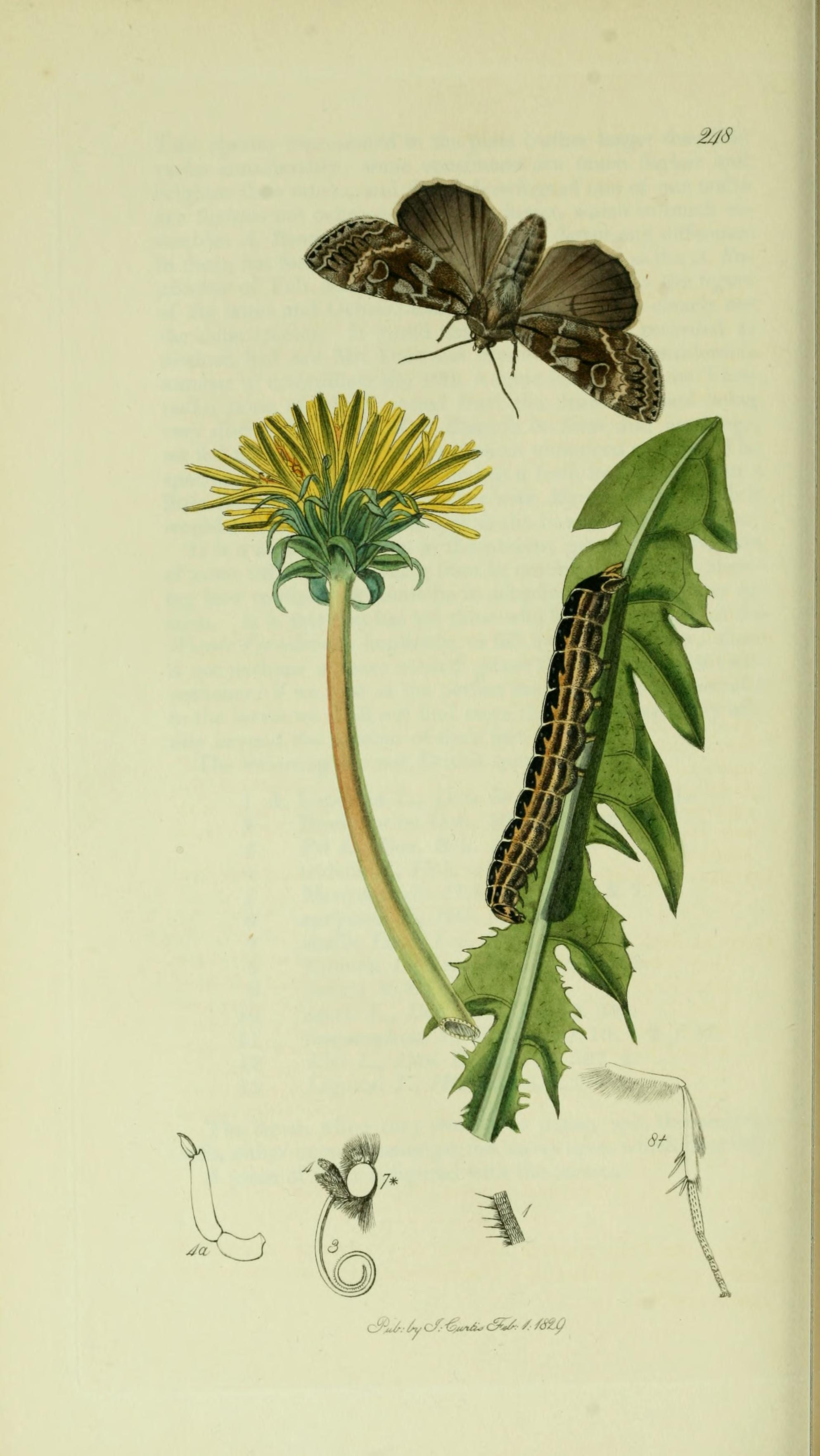 An illustration from British Entomology by John Curtis. Polia occulta or Eurois occulta (Great Brocade).